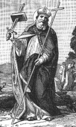 Photo of Saint Boniface. According to the photograph is from the book: Little Pictorial Lives of the Saints, a compilation based on Butler’s Lives of the Saints, and other sources by John Gilmary Shea (Benziger Brothers: New York, 1894). This attribution is in keeping with other images on the internet purpotedly from this book, which all look similar. Since it was first published in the United States 29 years before 1923, it falls in the Public Domain.